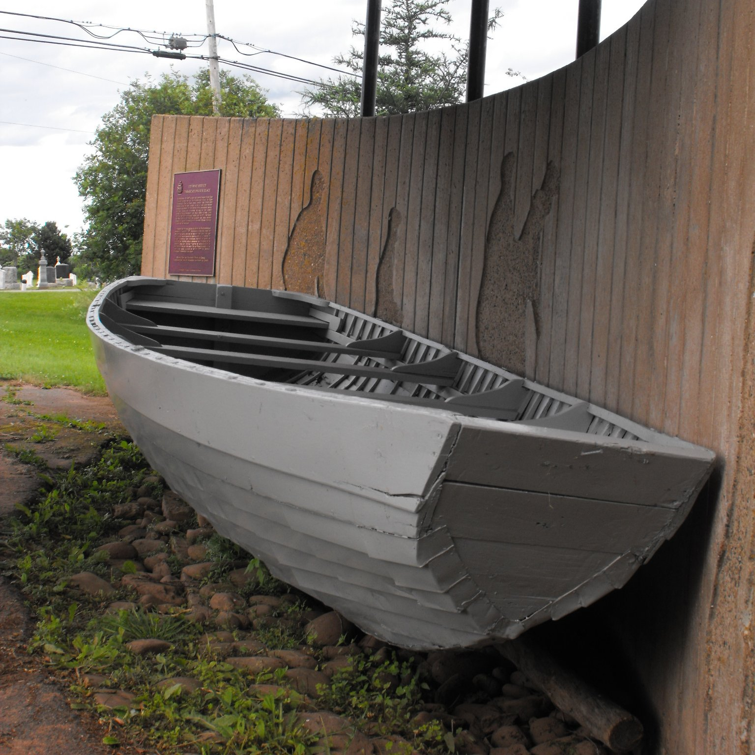 Cape Traverse National Historic Site, Prince Edward Island, Canada,, showing an ice boat.